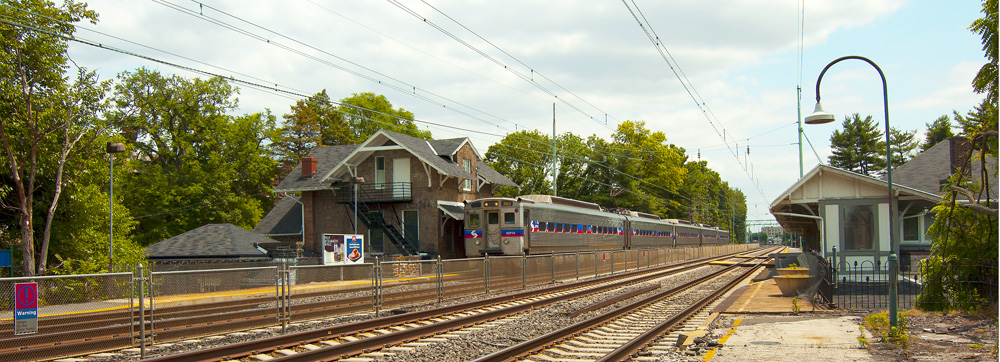 Panoramic view of SEPTA's Haverford, PA, Regional Rail Station facing east with a westbound Paoli/Thorndale Line commuter train stopped at the platform on Track #4 of the four track Amtrak owned "Keystone Service" former Pennsylvania Railroad Main Line grade.